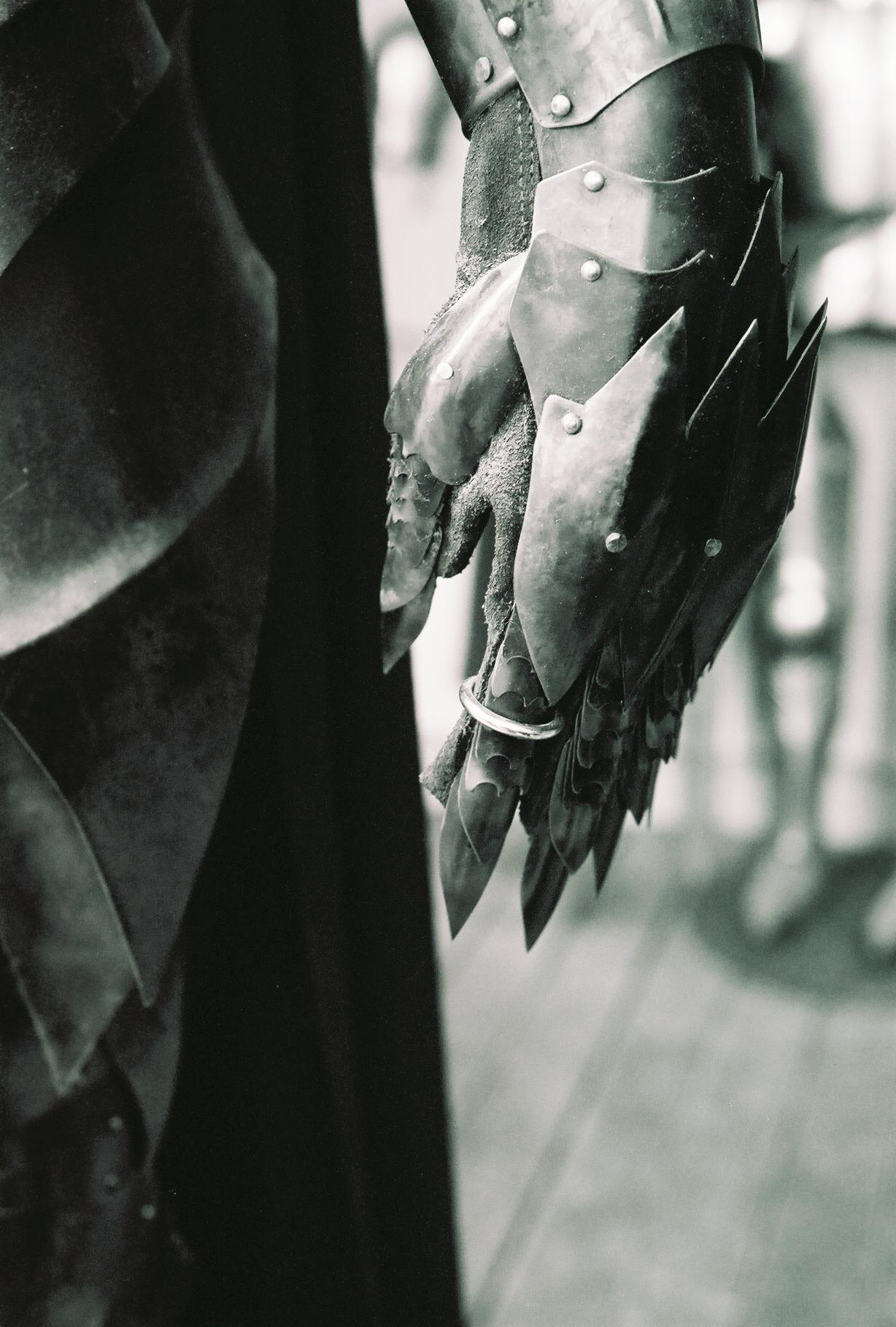 The hand of Sauron, wearing the One Ring. From a statue of the Dark Lord from the Lord of the Rings movie at the Renaissance Faire in 2005.